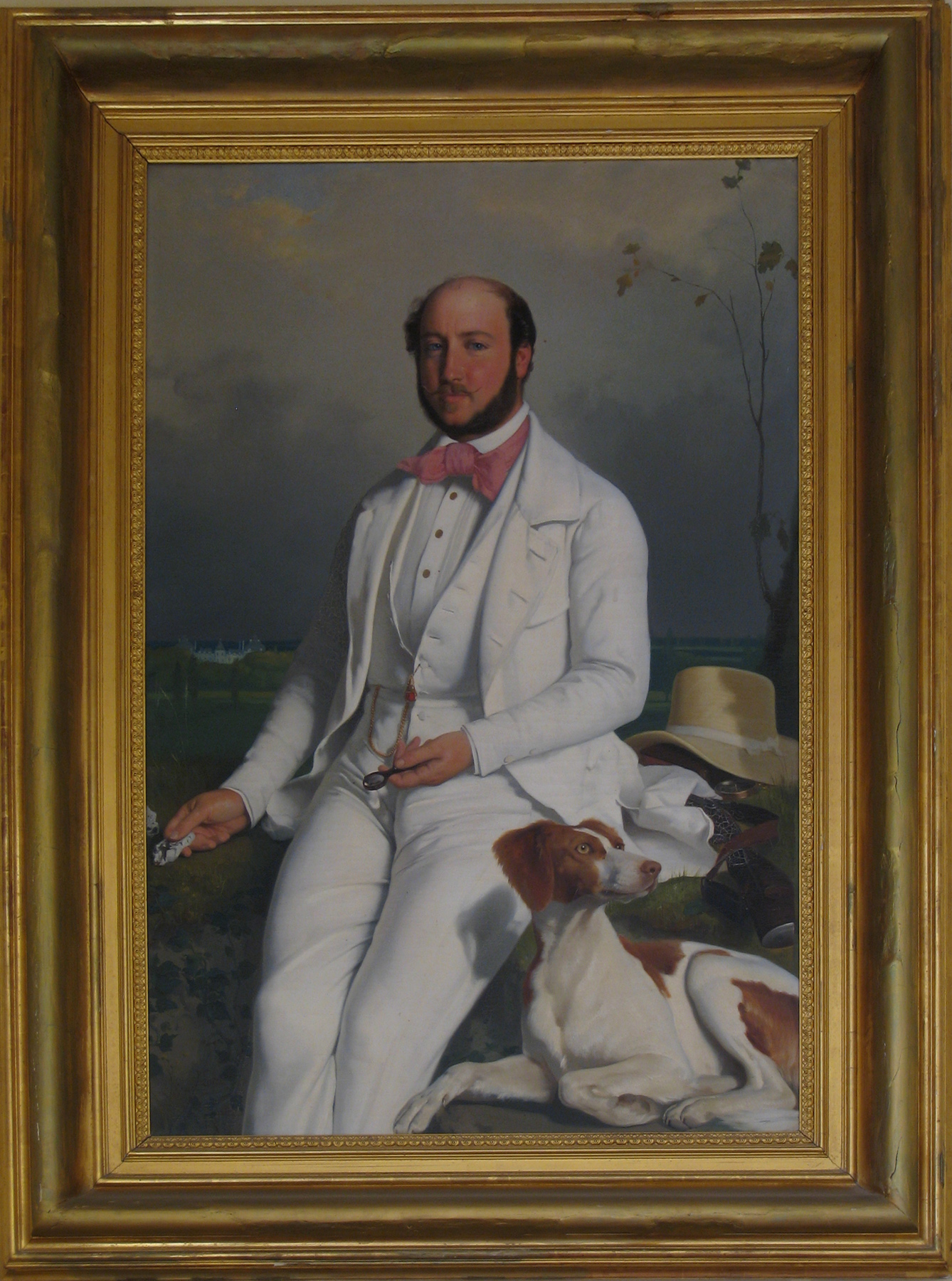 Portrait of the French amateur archaeologist Paul Hurault, 8th Marquis de Vibraye. On display at Château de Cheverny, Loir-et-Cher, France